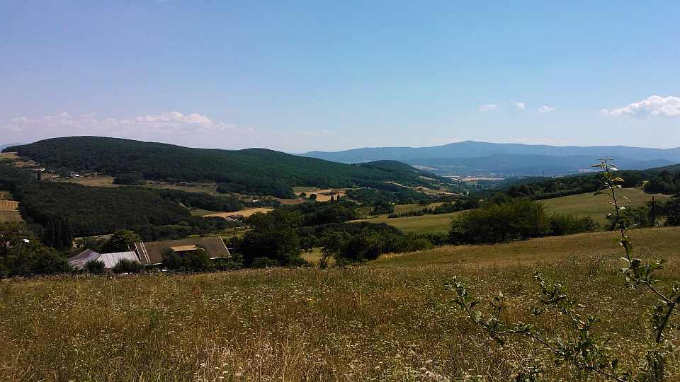 foto 1